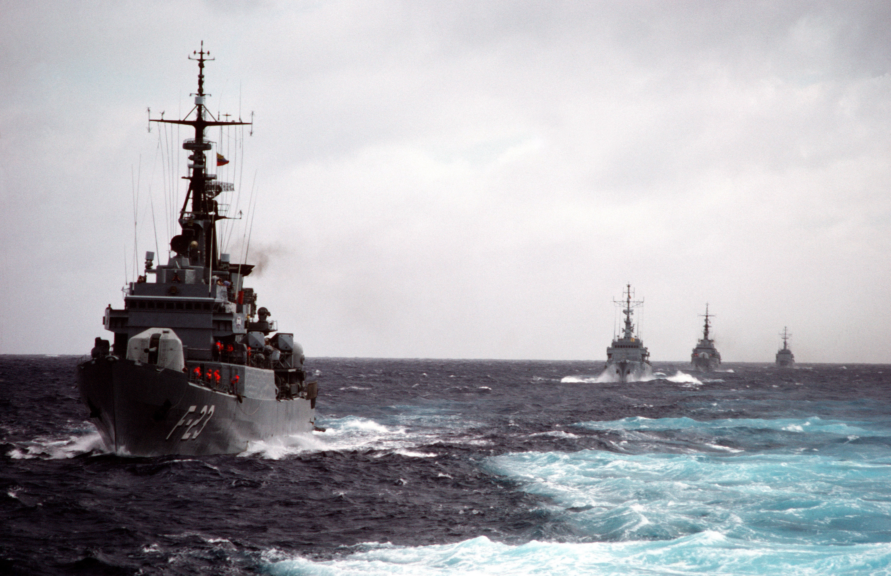 A port bow view of the Venezuelan corvette GENERAL URDANETA (F 23) underway during Operation UNITAS XXV. Underway in the background are two Columbian frigates separated by a second Venezuelan corvette